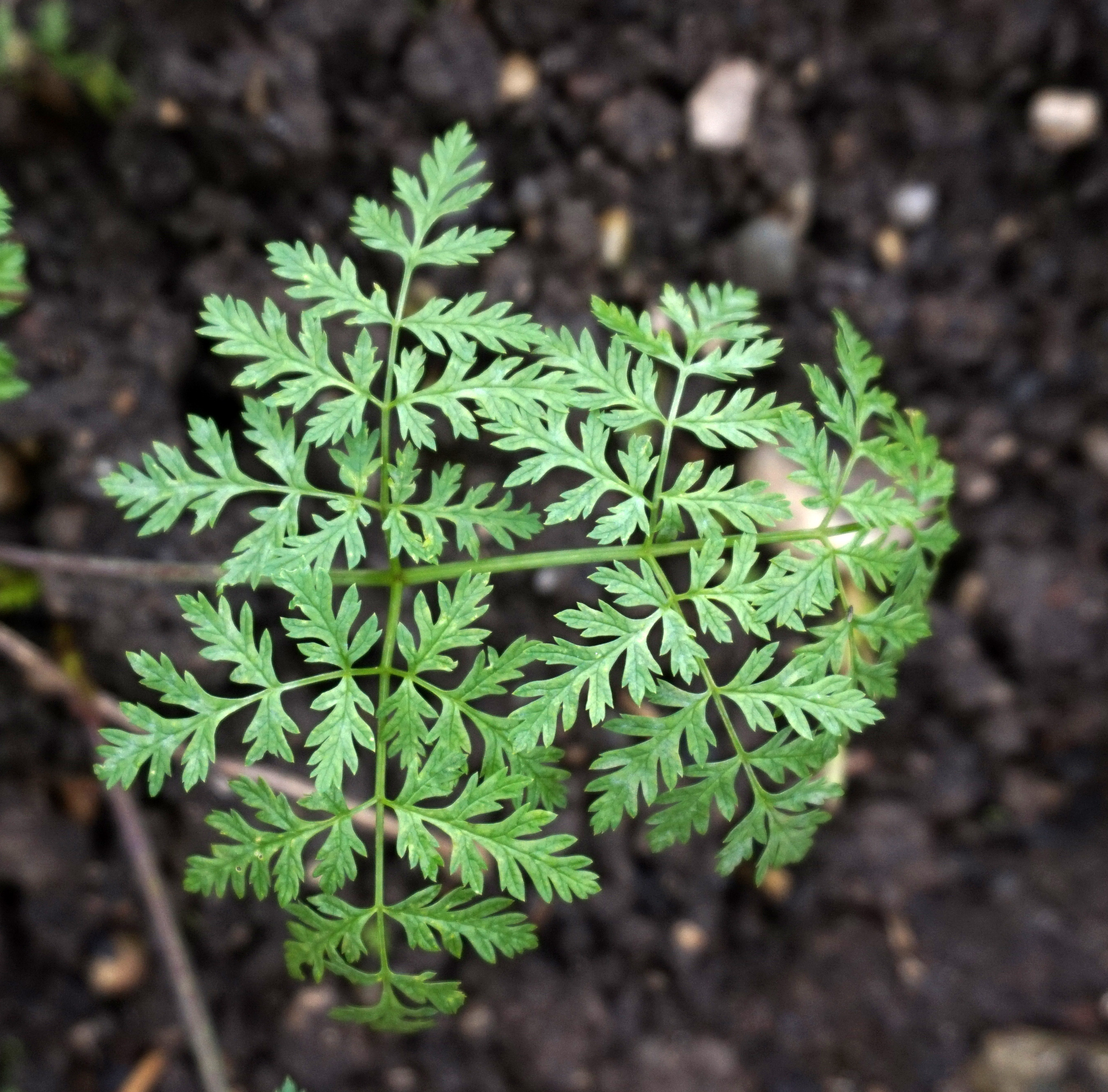 Conium maculatum in Geneva Botanical garden.This photograph was taken with a Sony ILCE-5000